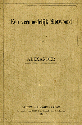 booklet Alexander, Prins der Nederlanden : Een vermoedelijk Slotwoord, 1879, P. Engels & Zoon, Leiden 1879. Toegeschreven aan Z.K.H. Prins Alexander der Nederlanden